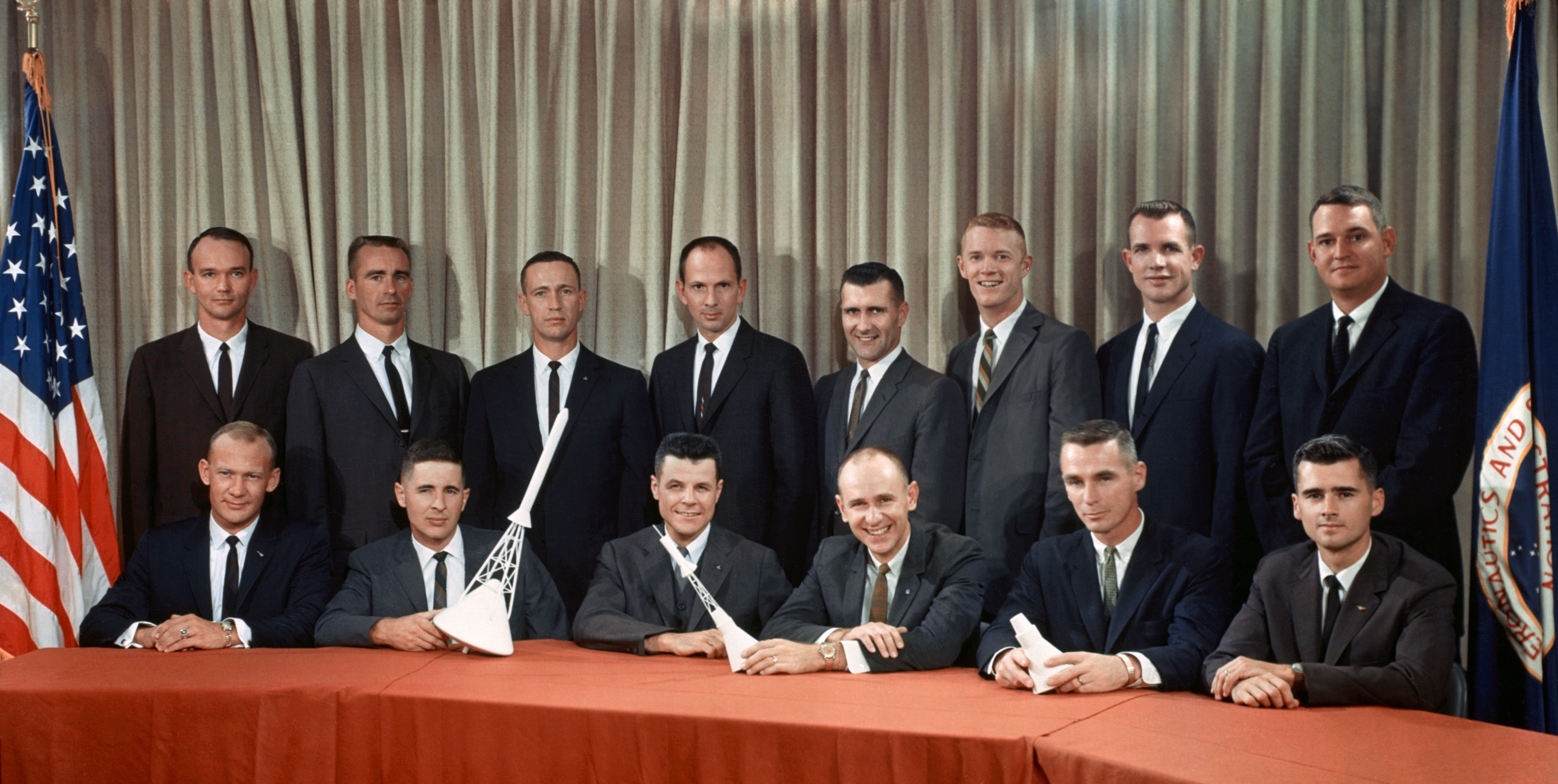 Astronaut Group Three announced on October 18, 1963. They are (seated, left to right) Edwin E. Aldrin Jr., William A. Anders, Charles A. Bassett II, Alan L. Bean, Eugene A. Cernan, and Roger B. Chaffee. Standing (left to right) are Michael Collins, R. Walter Cunningham, Donn F. Eisele, Theodore C. Freeman, Richard F. Gordon Jr., Russell L. Schweickart, David R. Scott and Clifton C. Williams Jr.